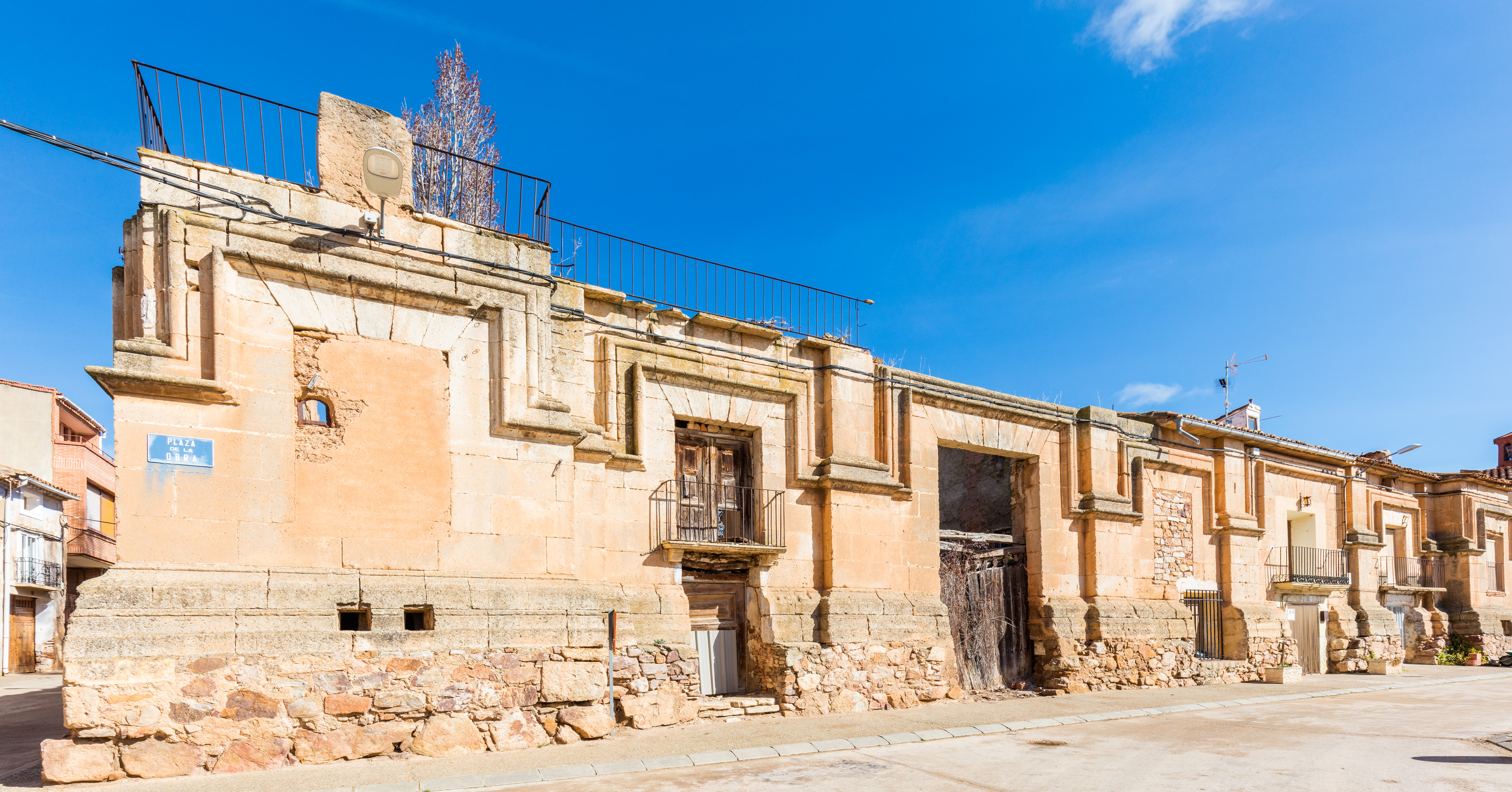 Palace, Used, Zaragoza, Spain